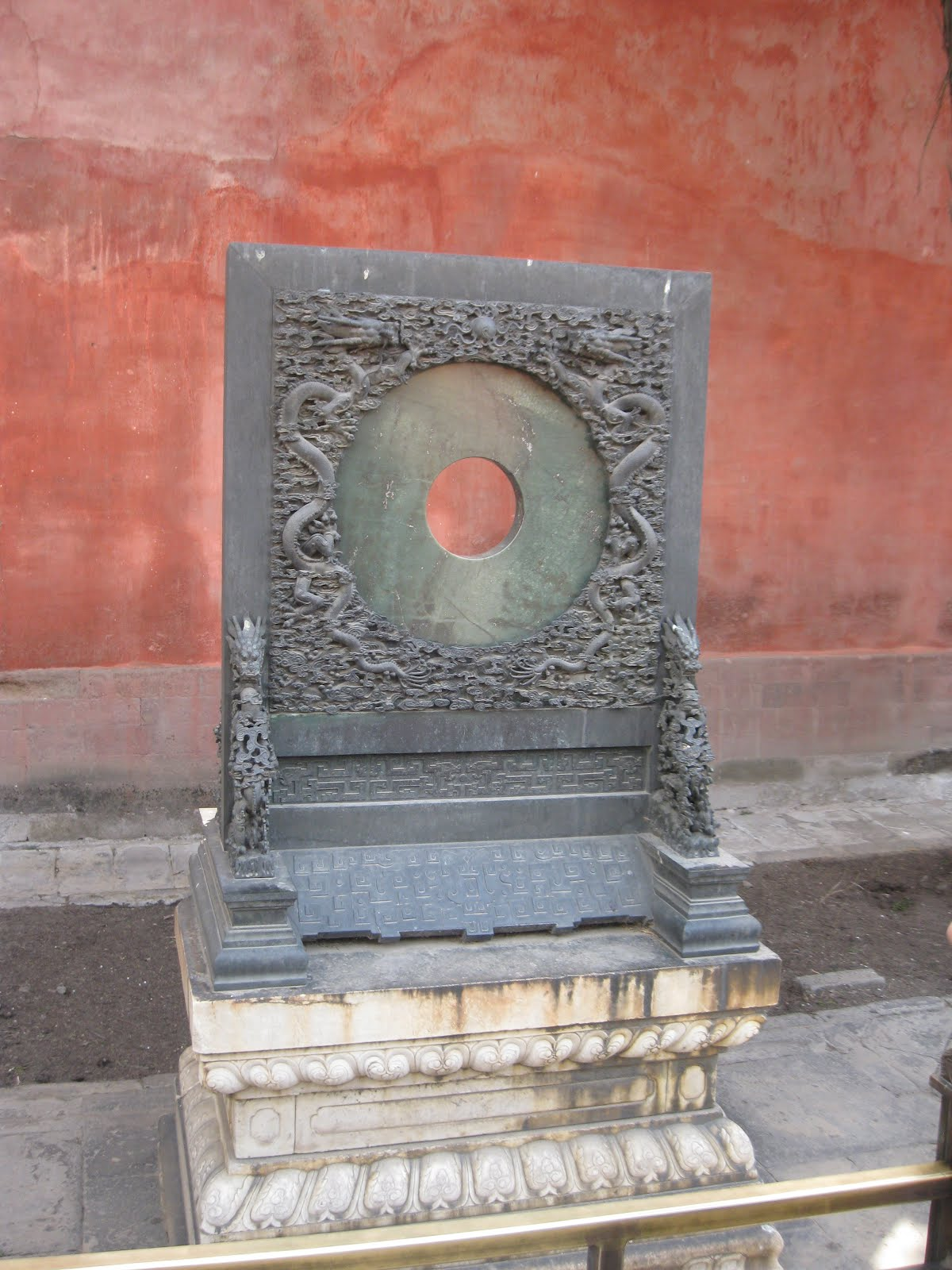 Forbidden City